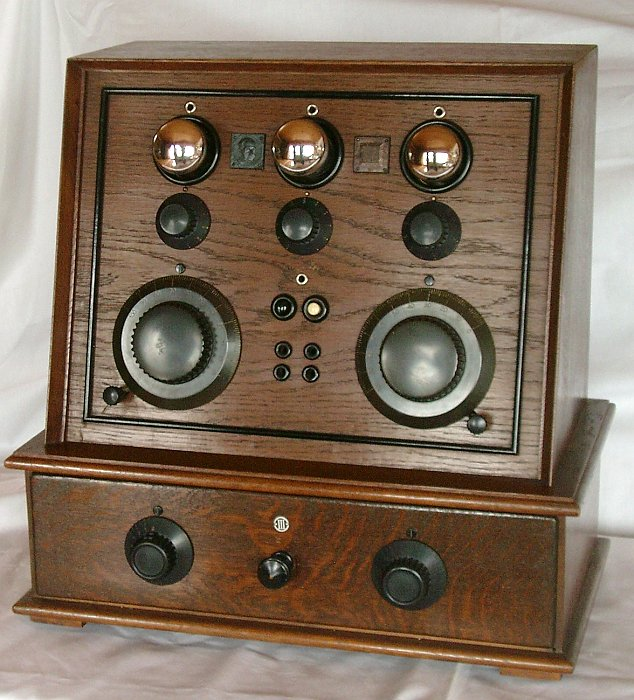 A 1926 Telefunken 3 tube TRF radio.